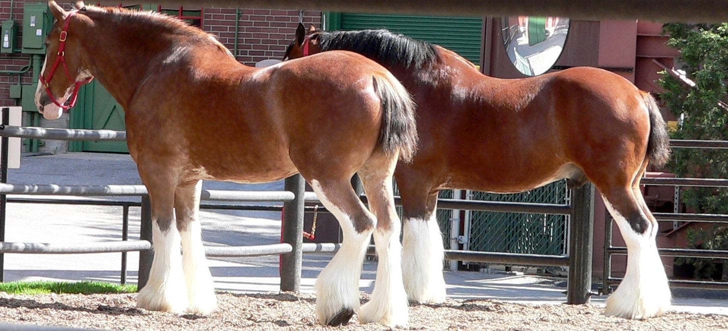 Young clydesdalesP1020188